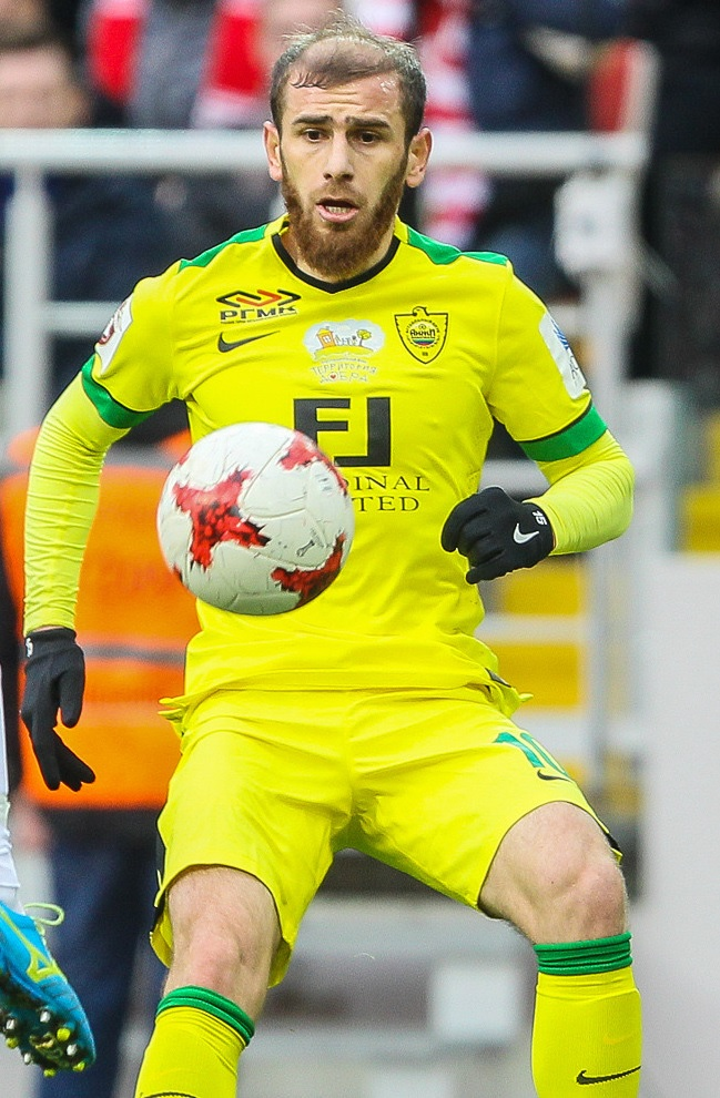 Adlan Katsayev with FC Anzhi Makhachkala in a game against FC Spartak Moscow.